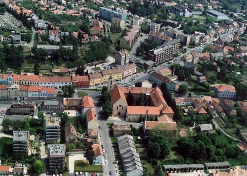 Vasvár, Hungary, aerialphotgraphy